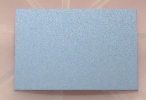 InP single crystal, polished side up